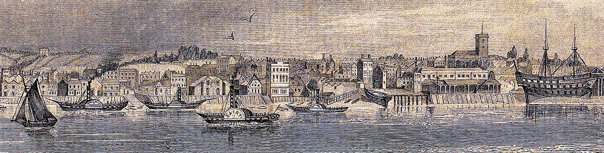 View of Woolwich and the river Thames from the north. Detail of an engraving by Richard Rixon. The tall stuccoed building is the Nile Tavern on Hog Lane. Nearby two so-called Watermen's Stairs: the Green Dragon Stairs at the end of Hog Lane (later Nile Street). Further east the Bell Water Gate Stairs. To the right the parish church of St Mary Magdalene and Woolwich Dockyard.